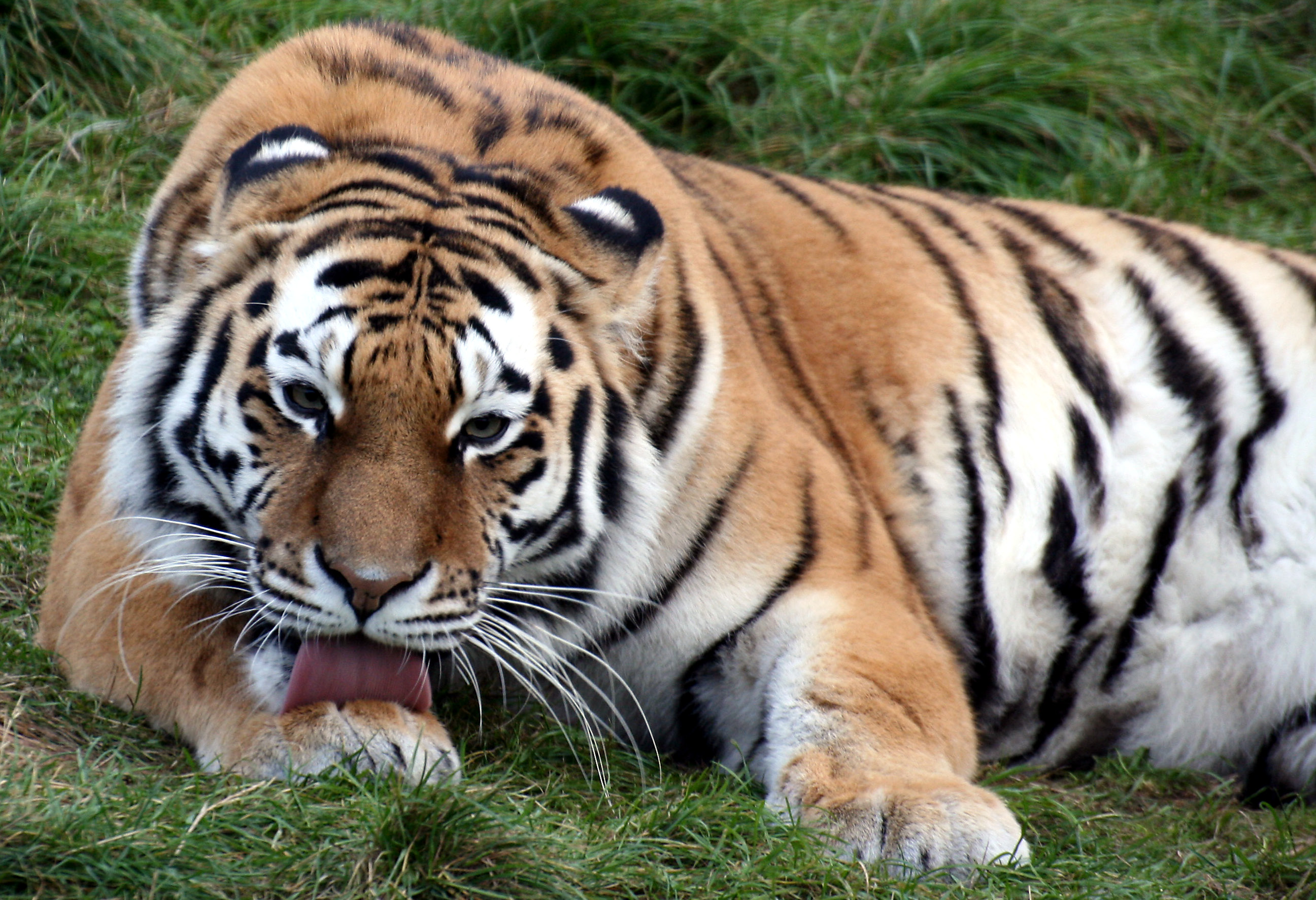 Amur Tiger at Colchester Zoo.